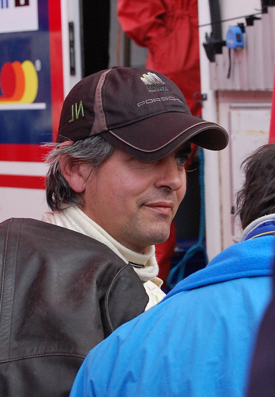 Sergio Vallejo.Spanish rally driver.